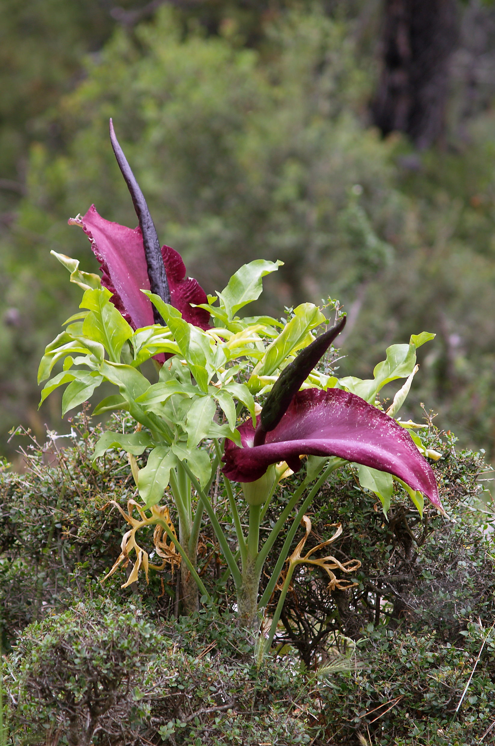 Dragon Arum (Dracunculus vulgaris), Thasos, Greece